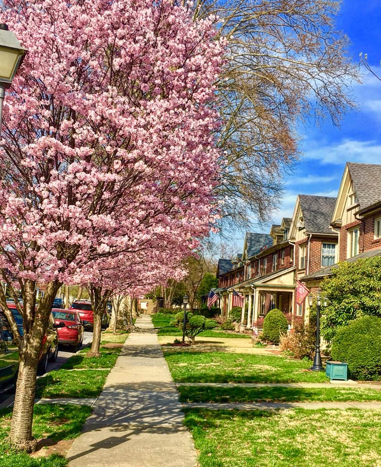 Trees blooming on Sunset Road, West Reading.